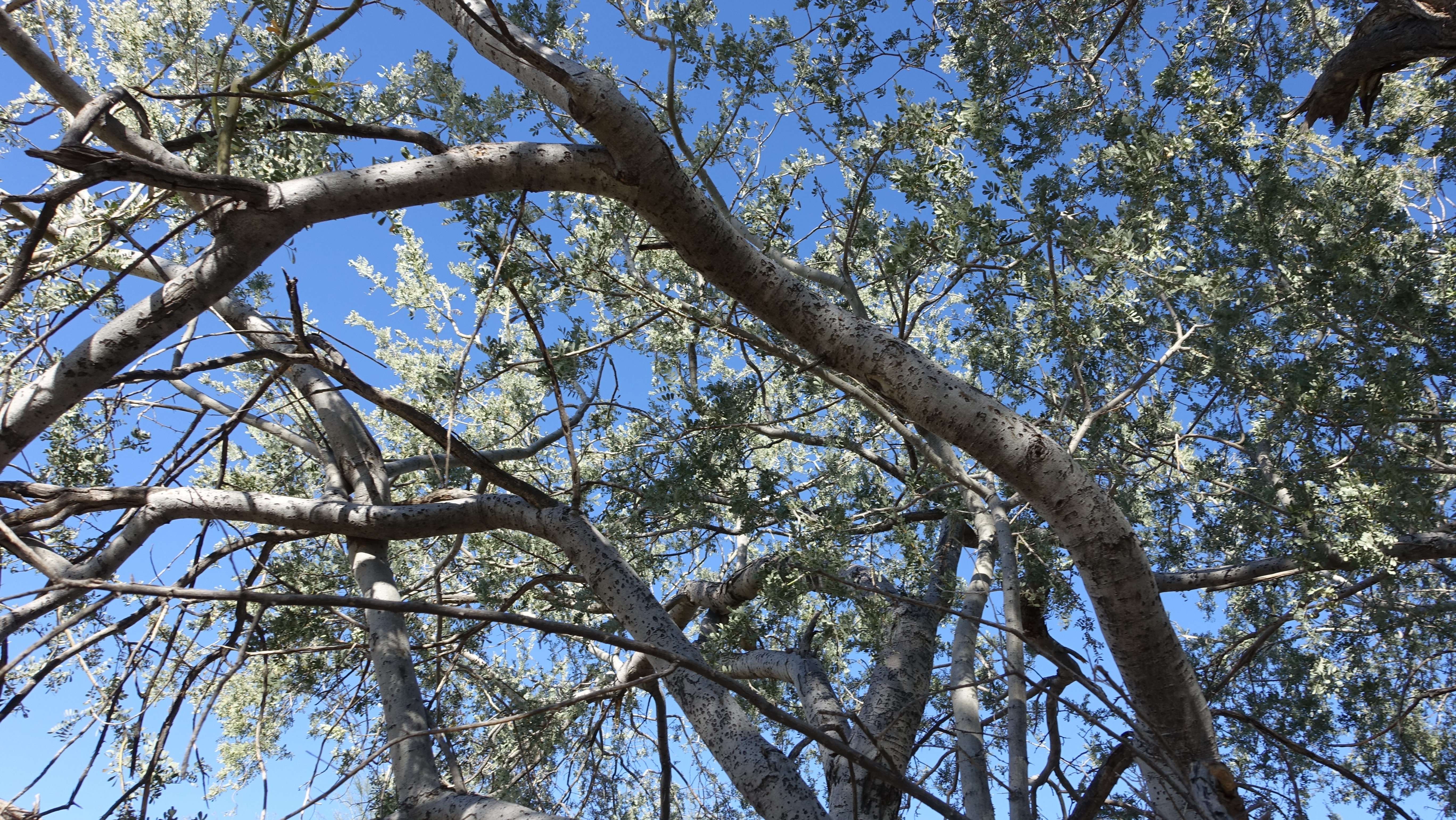 Olneya tesota Canopy. Picture taken at the Sonoran Desert National Monument.